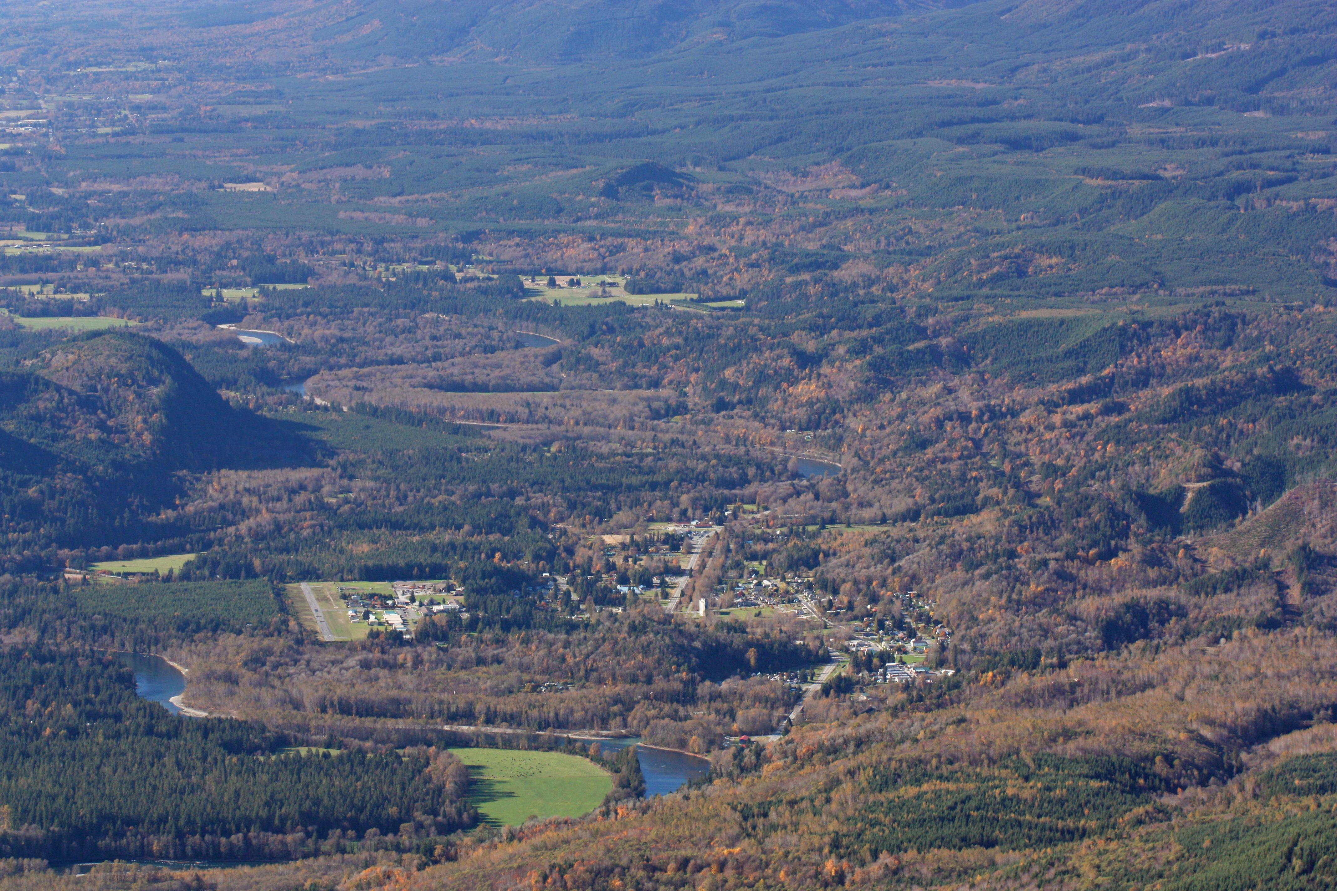 Skagit River Valley at (below center); Washington State Route 20; river meanders Viewpoint location: Sauk Mountain Trail #613, Mount Baker-Snoqualmie National Forest Viewpoint elevation: 1680 meter (5511 ft) View direction: 279° Location source: Garmin GPSmap 60CSx Location Datum: WGS84 See also the files based on this image: File:Skagit River 8685 historical concrete and quarry2.jpg and File:Skagit River 8685 historical concrete.jpg